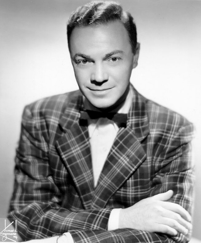 Photo of disk Jockey Alan Freed. Note this upload is an unwatermarked copy of the photo. There are no copyright marks on either front or back as can be seen in the links above. Published by TV-Radio Mirror in September 1956 page 28 The TV-Radio Mirror copyright was not renewed. No listings at for TV-Radio Mirror. A colorized copy was published by Topps gum cards in 1957. The Topps card copyright was not renewed. A search was conducted at using the company's name, Topps. The search revealed no renewals of any of the company's cards-only registrations of their more current sports ones. I am also aware that Getty Images offers a copy of this photo as part of the Michael Ochs Archives. Ochs collected celebrity publicity photos and Getty is making no claims about copyright for this photo.